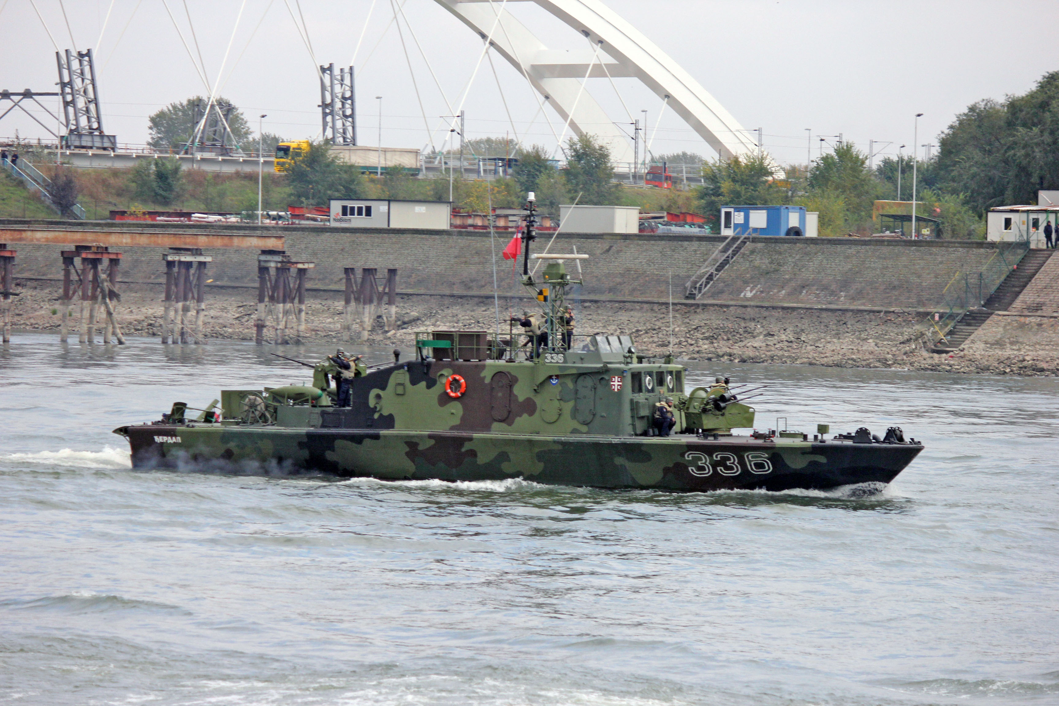 Serbian Аrmy River Flotilla Neštin-class river minesweeper RML-336 "Đerdap" on Danube at Novi Sad during the WW2 liberation parade and military exercise.